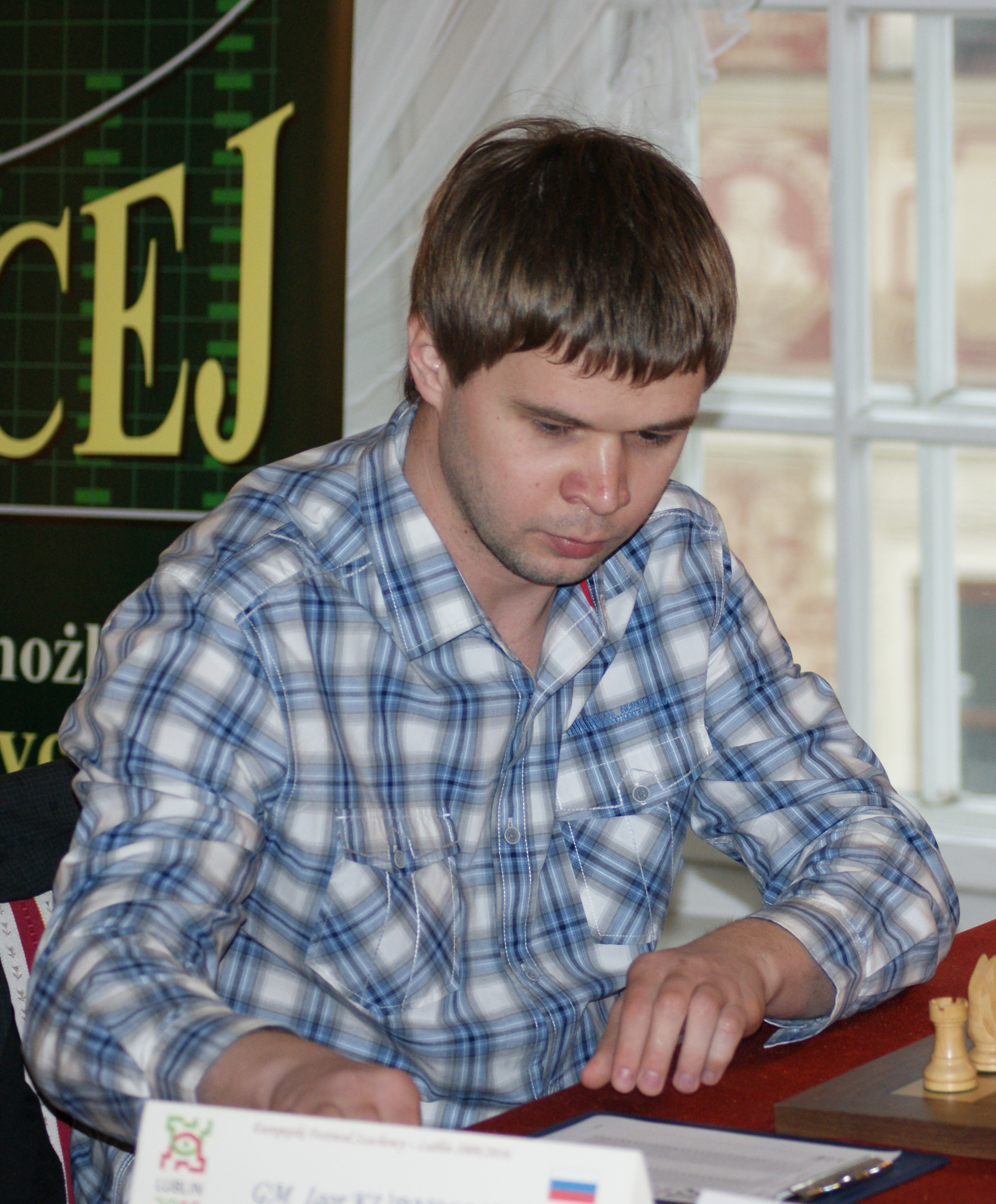 Igor Kurnosov - 6th round of 2nd International Grandmasters' Tournament - the Lublin Union Memorial 2010